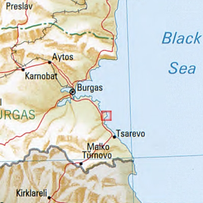 location of Cape Maslen nos in Bulgaria